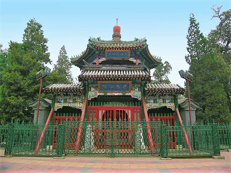 The Niujie Mosque (Chinese: 牛街清真寺; pinyin: niújiē qīngzhēnsì) is the oldest mosque in Beijing, China. It was built in 996 and completely rebuilt under the Kangxi Emperor (1622-1722).